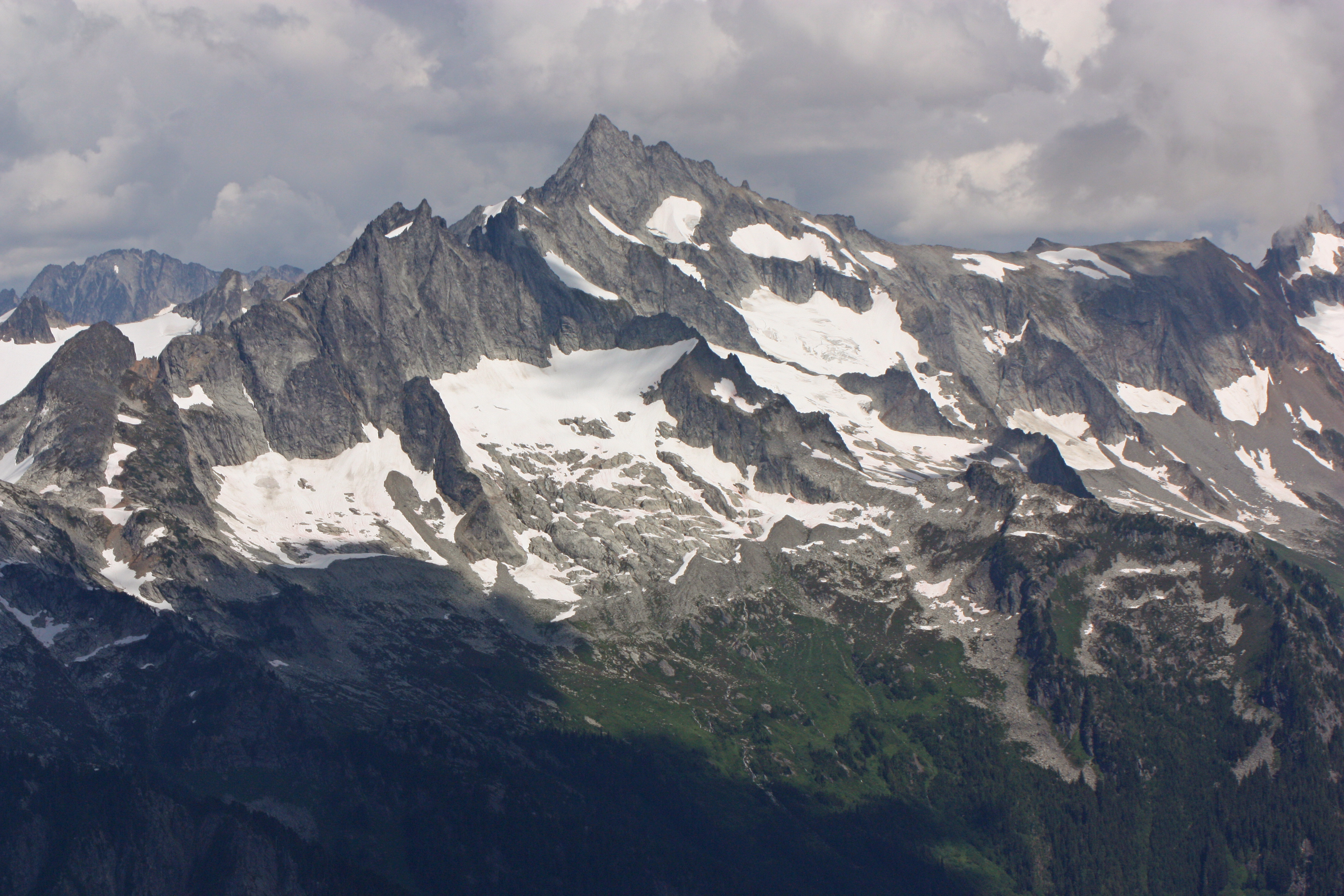 Forbidden Peak (center skyline); Mount Torment (left, middle distance, double summit with snow; Mount Logan (near left edge, skyline, beyond snow-filled saddle at the upper margin of Boston Glacier) Viewpoint location: Hidden Lake Trail, North Cascades National Park Viewpoint elevation: 1792 meter (5878 ft) View direction: 80° Location source: Garmin GPSmap 60CSx Location Datum: WGS84